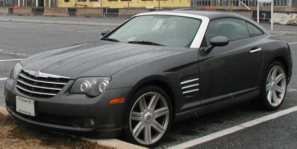 Chrysler Crossfire photographed in College Park, Maryland, USA.